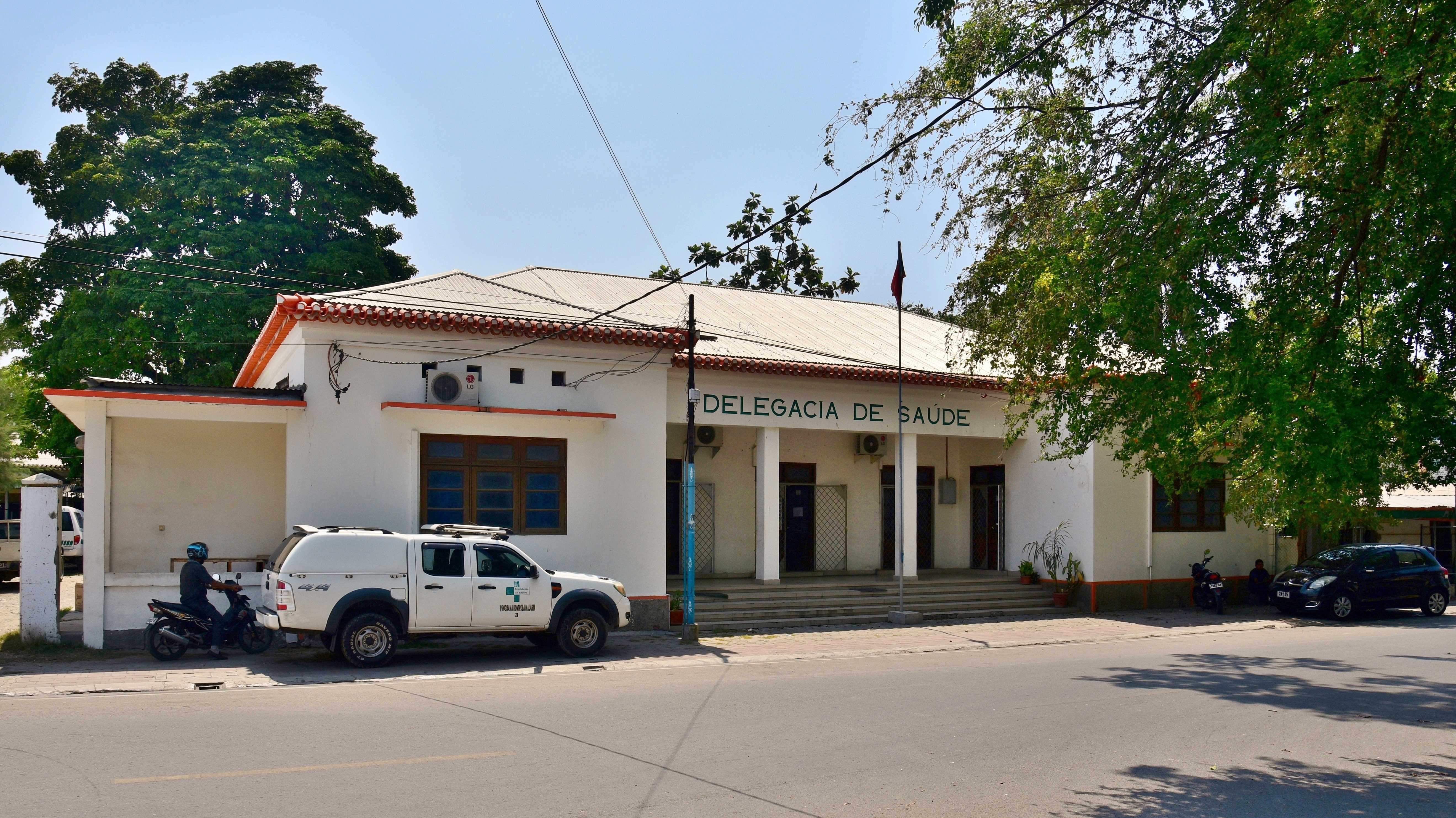 Centro de Saúde, Díli